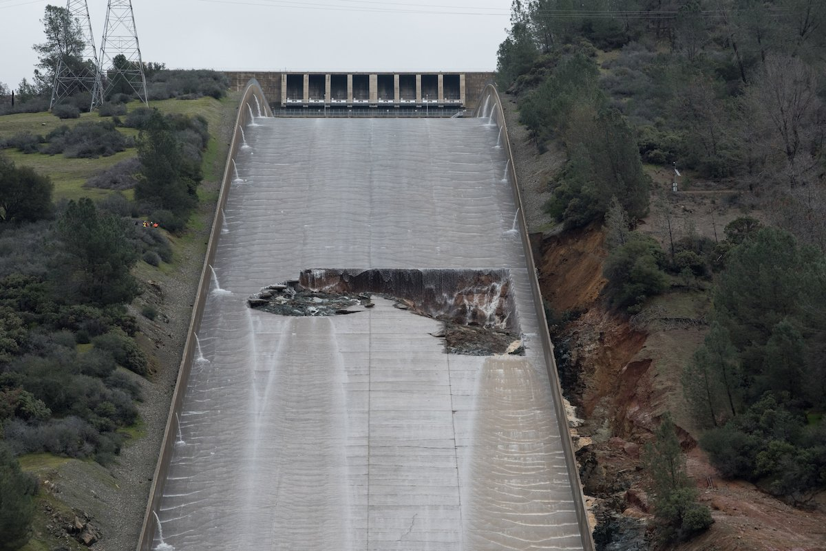 Damage to main spillway of Oroville Dam on 8 February 2017.